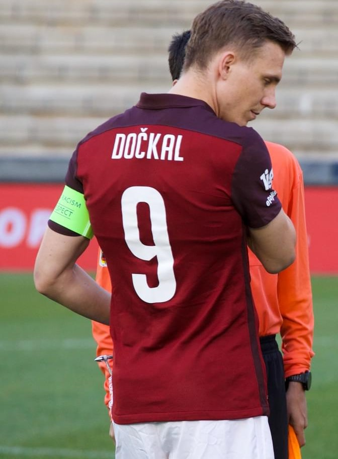 Bořek Dočkal